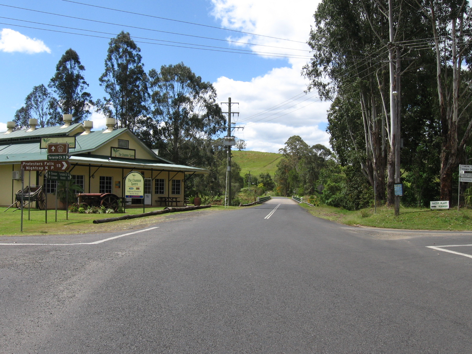 Main street of The Channon, in New South Wales. Photo taken by myself.